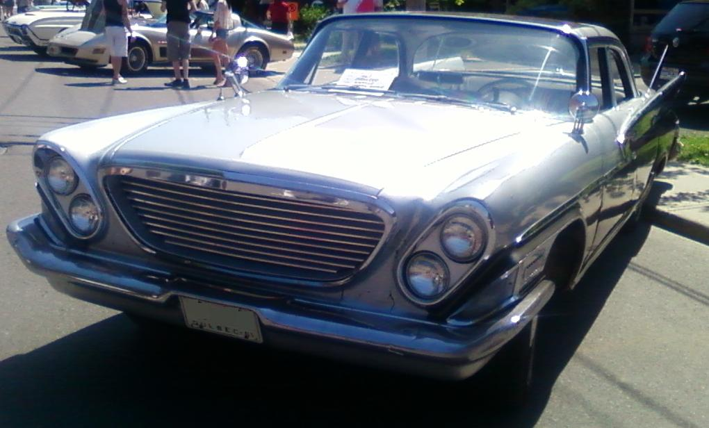 1961 Chrysler Windsor photographed in St. Lambert, Quebec, Canada at Auto classique VAQ St-Lambert 2012.